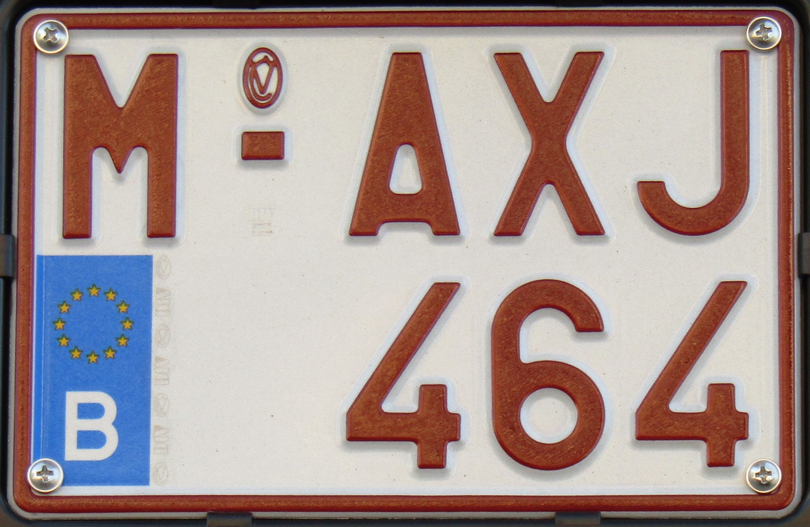 Belgian motorcycle license plate